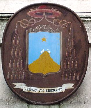 Motto of cardinal Andrzej Maria Deskur